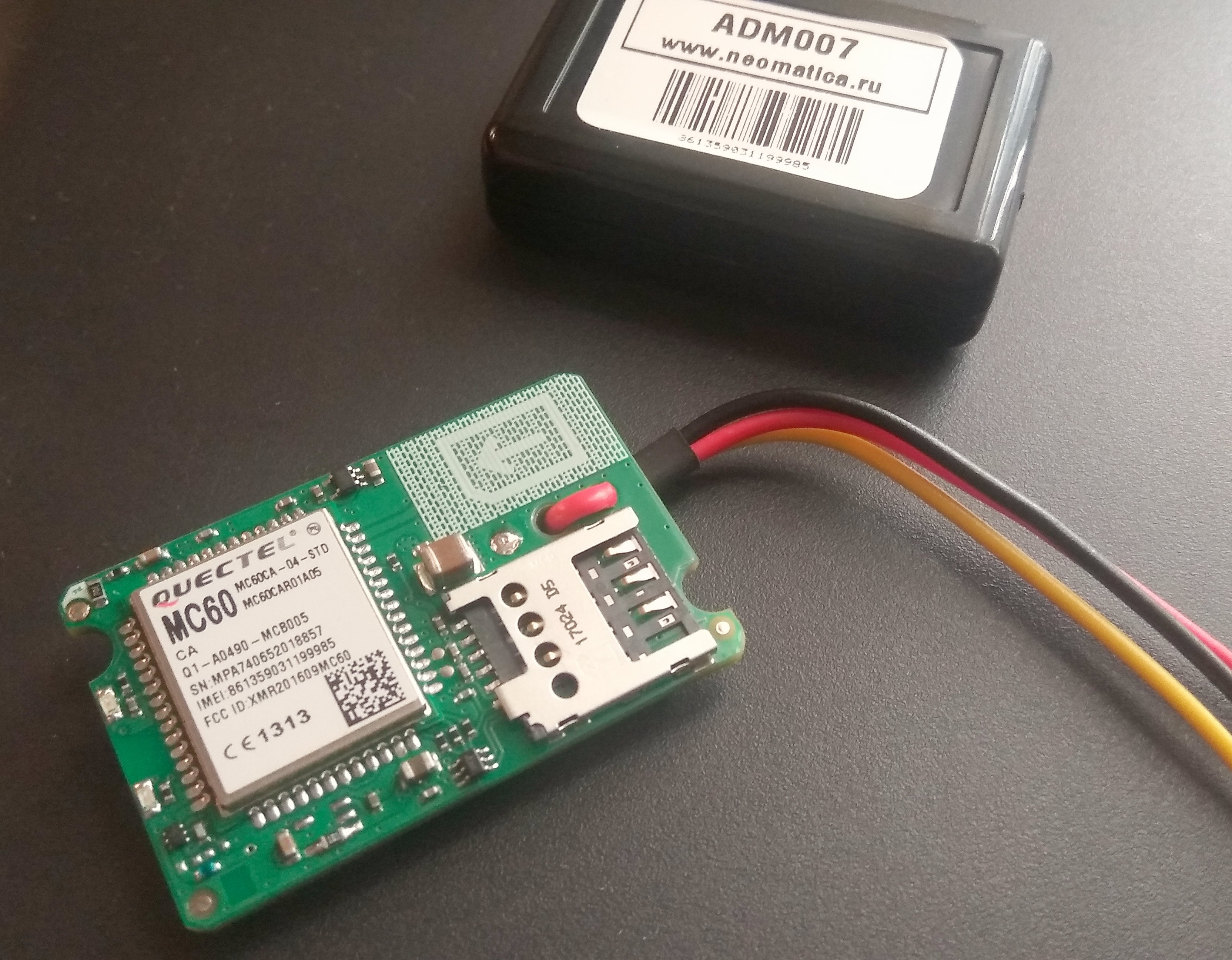 Neomatics ADM100 GPS Tracker at Qectel MC60CAR01A05 chip